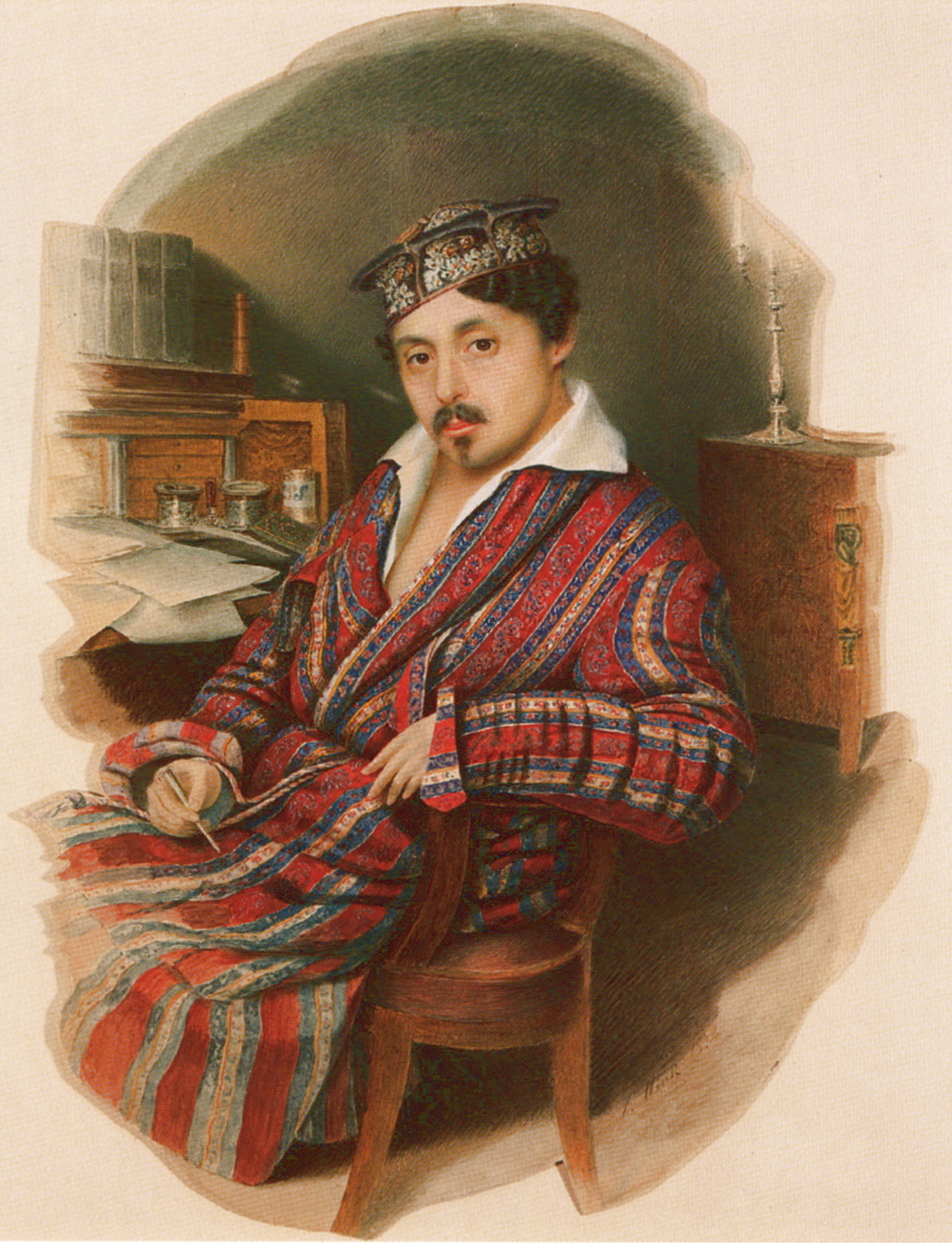 The actor and playwright Karl Haffner (1804–1876). Watercolour, 32.5 x 24 cm. Signed and dated: A. Mink 1842